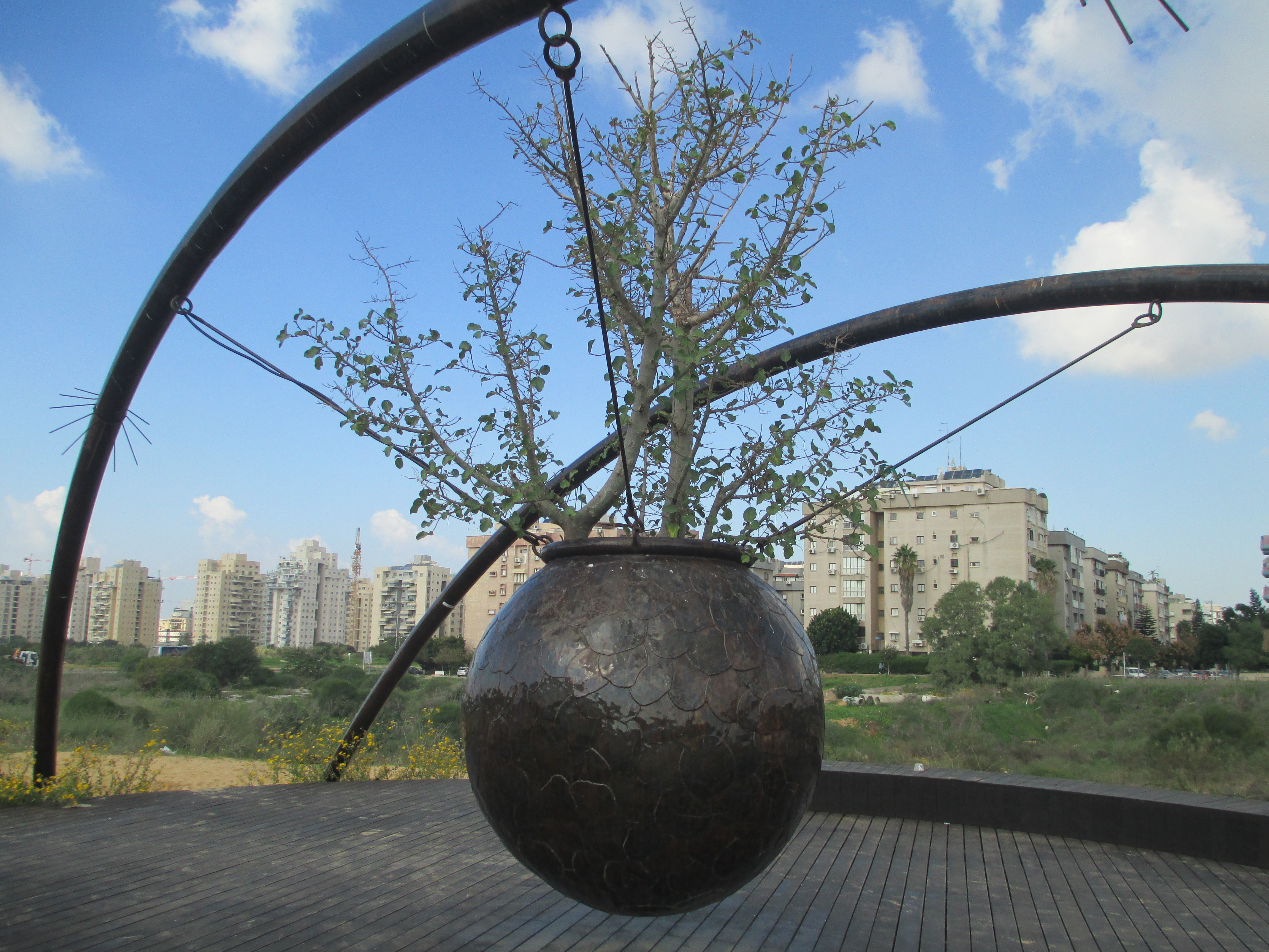 Sycamore tree vase in Holon